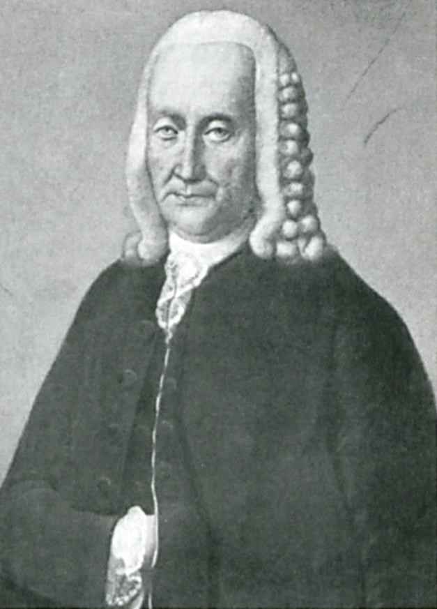 Georg Melchior von Hofmann (1688-1781), Wetzlar